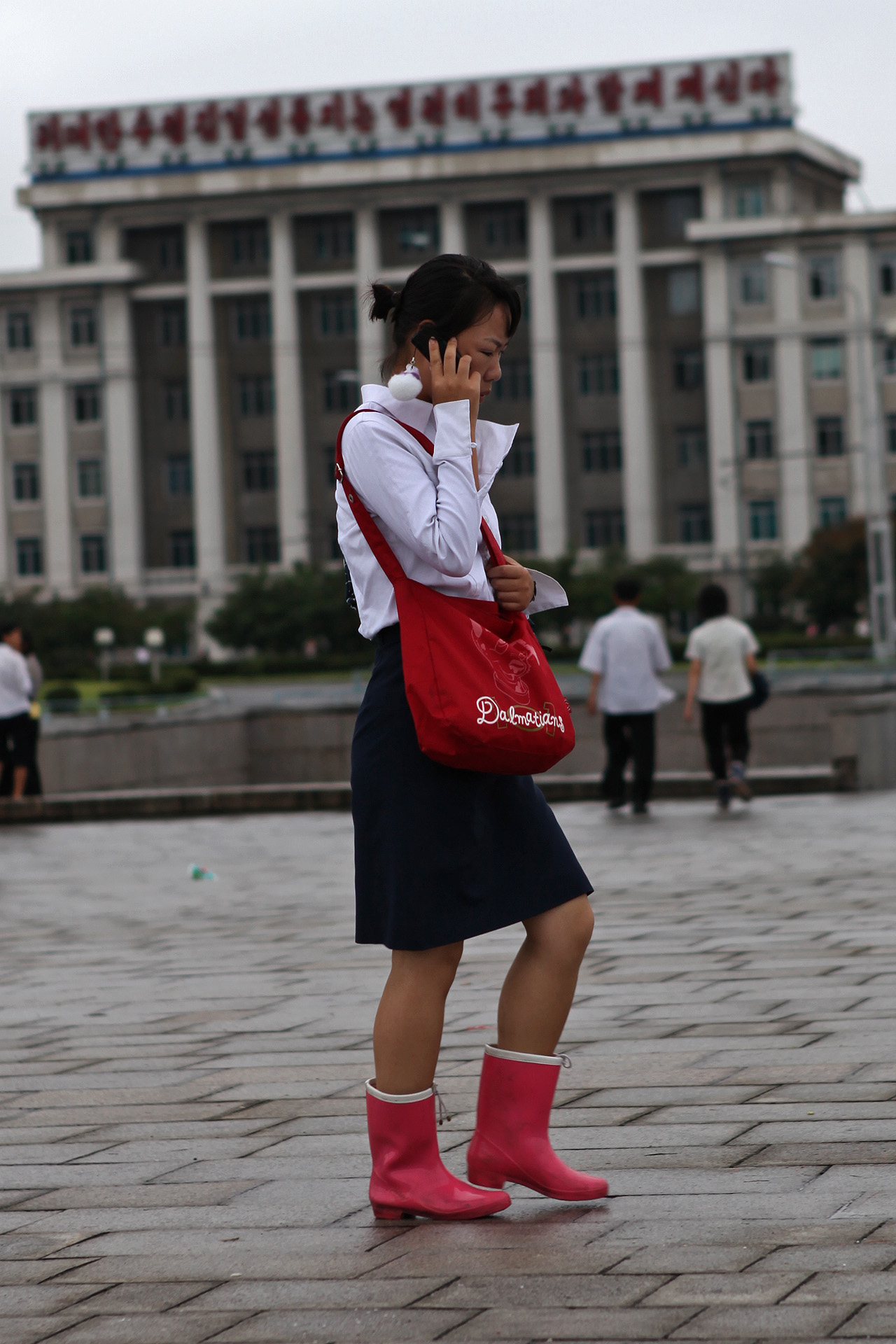 You can see many mobile phones in Pyongyang. It is not true that in DPRK is no mobile phone network. However, ordinary people cannot afford to buy cell phone due to many obstacles and poverty in the country. North Korean subscriptions to the Koryolink mobile phone network are around 185,000 (March 2010) 3G mobile phone service in North Korea is a joint venture between Egyptian company Orascom and the state-owned Korea Post and Telecommunications Corporation